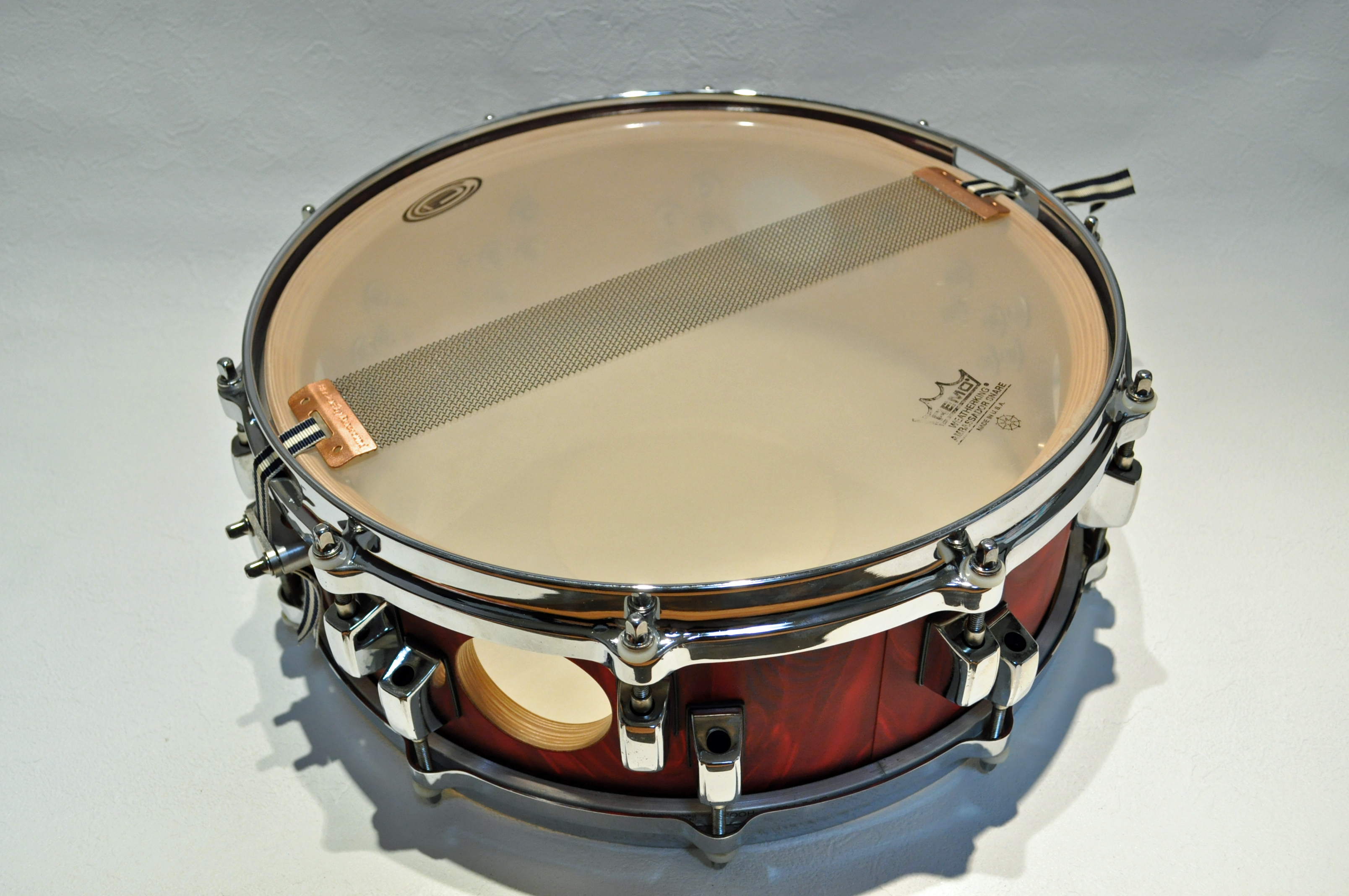 Snare drum and its snare wire